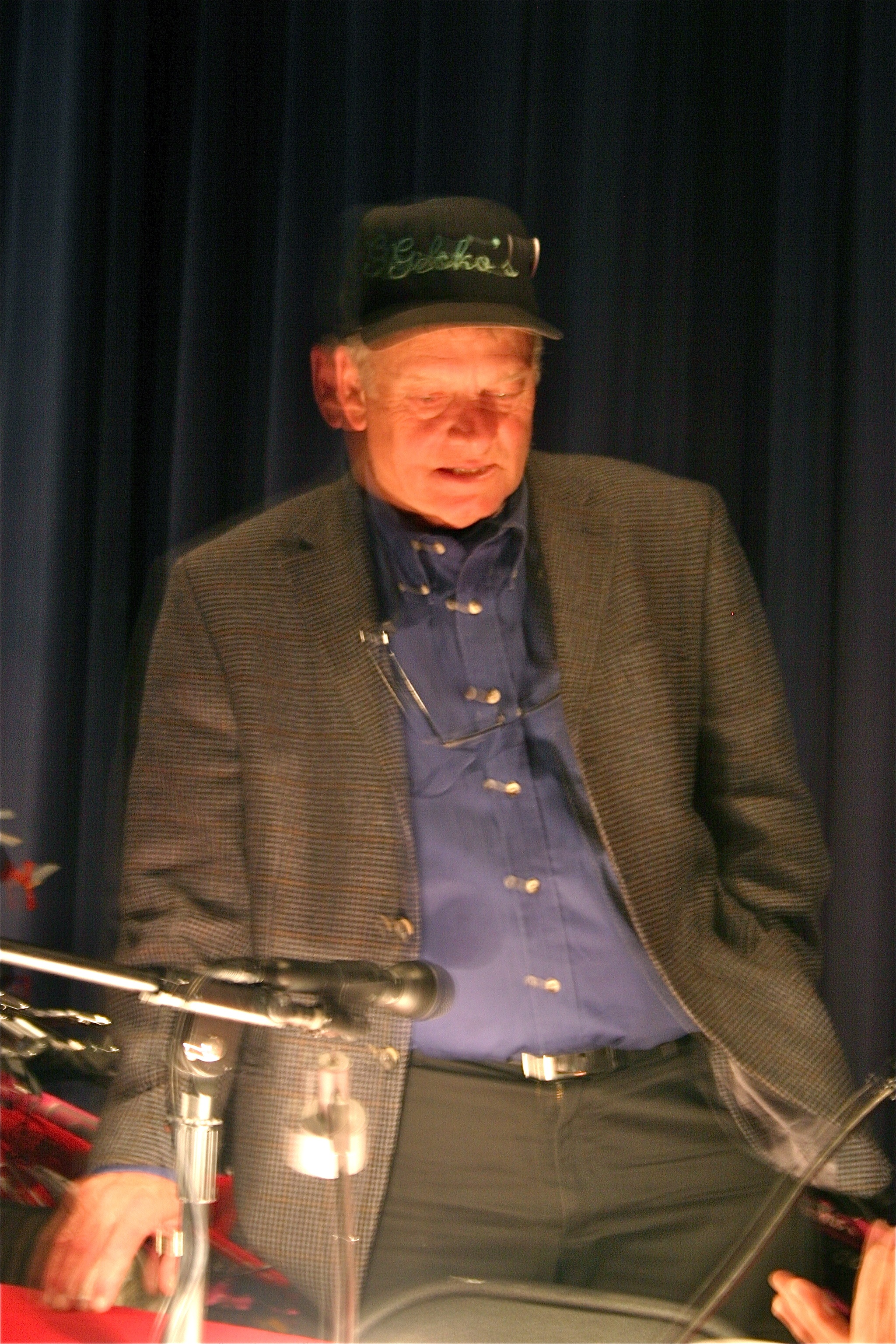 Author Terry Bisson